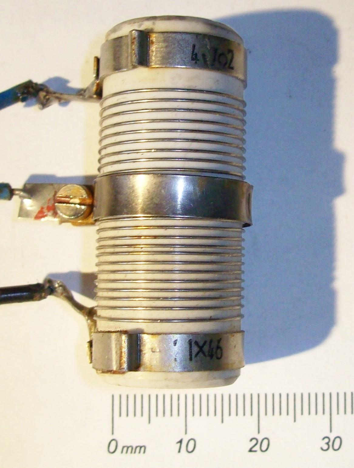 wire wounded resistor 4.7 Ohm with tap